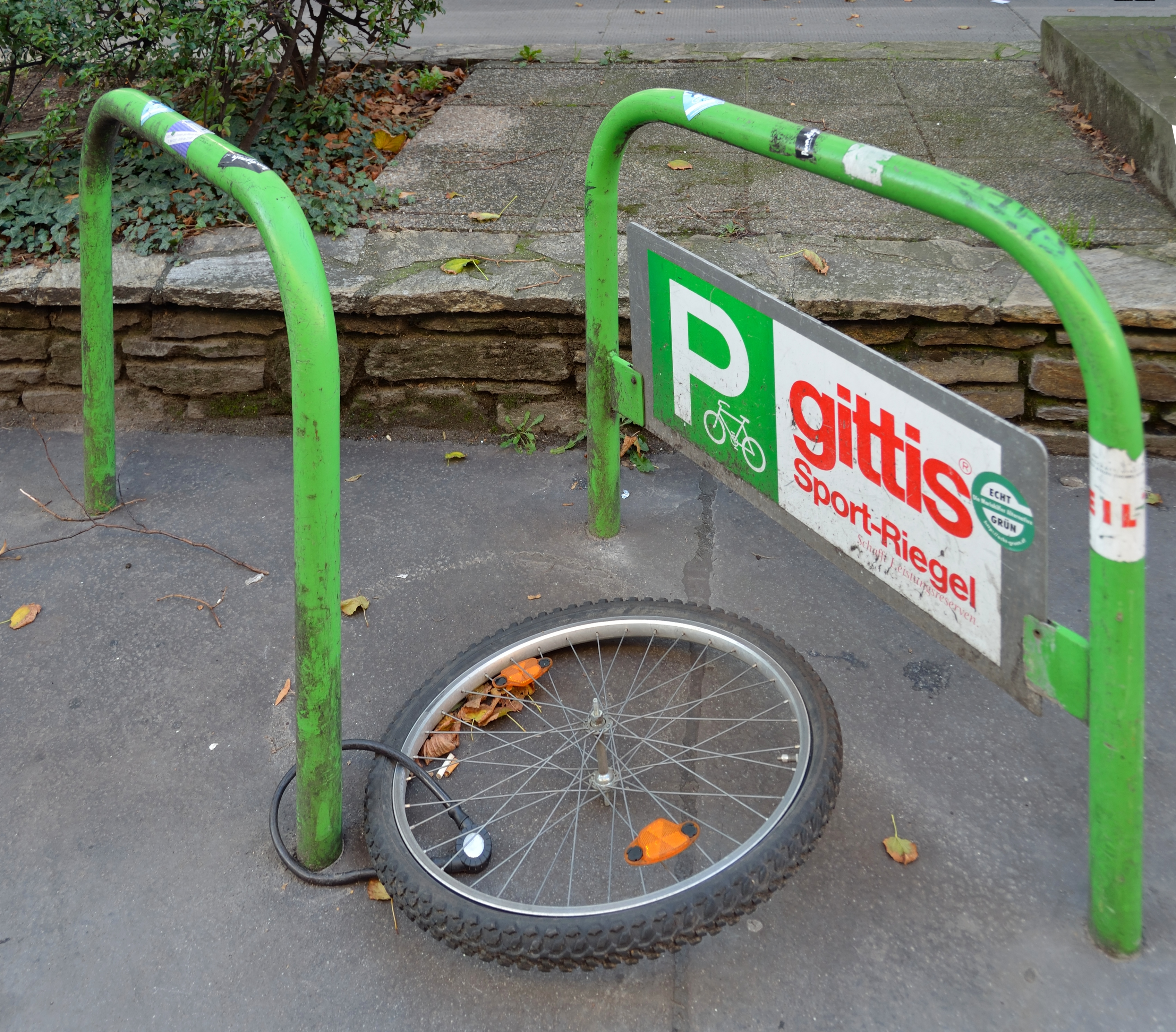 The standard bike racks in Vienna look like this one, in most of the cases the bikes are complete.